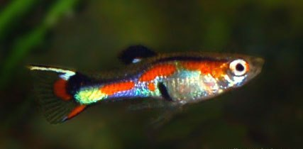 poecilia wingei, endler, endlers livebearer; strain 2004 Yellow Top Sword